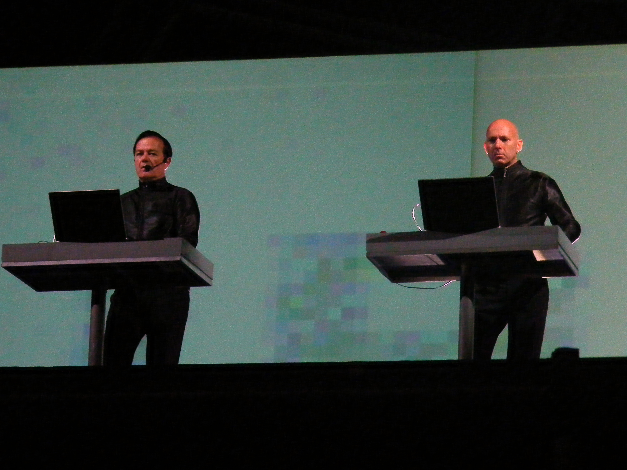 Two Kraftwerk-musicians on stage at the Bestival 2009 (left Ralf Hütter, right Henning Schmitz). Saturday 12 September 2009